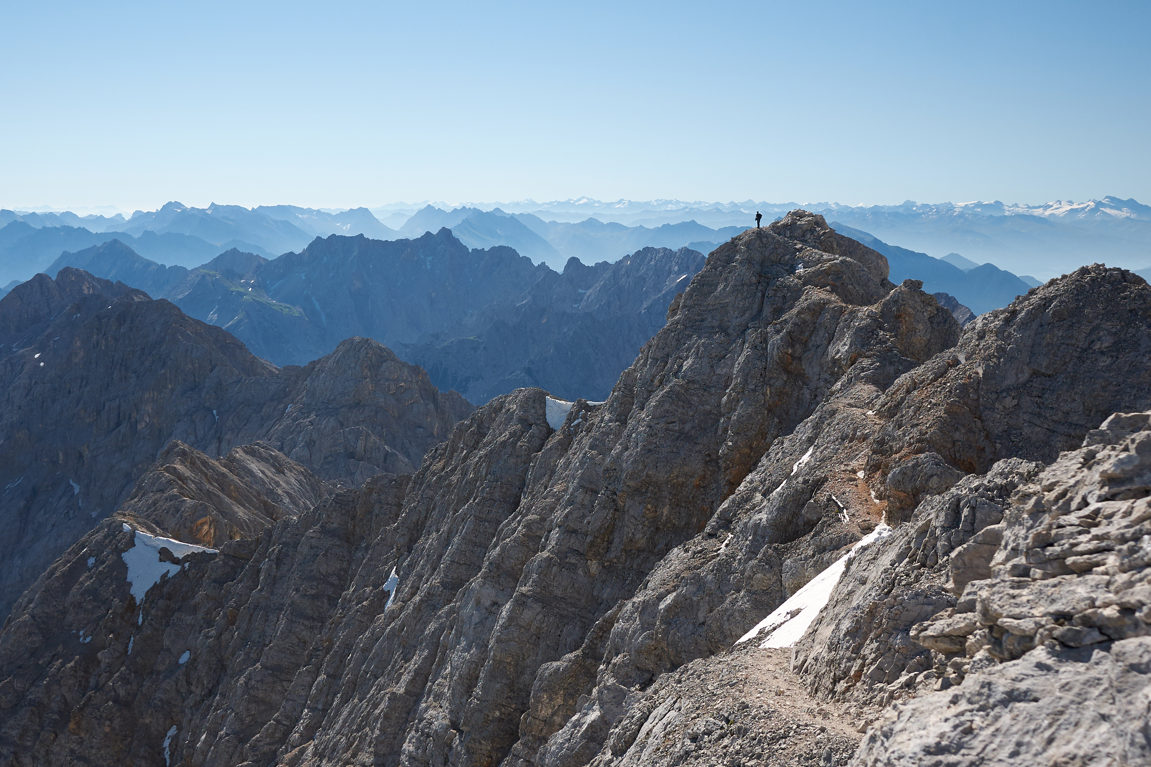 Jubiläumsgrat between Zugspitze and Alpspitze